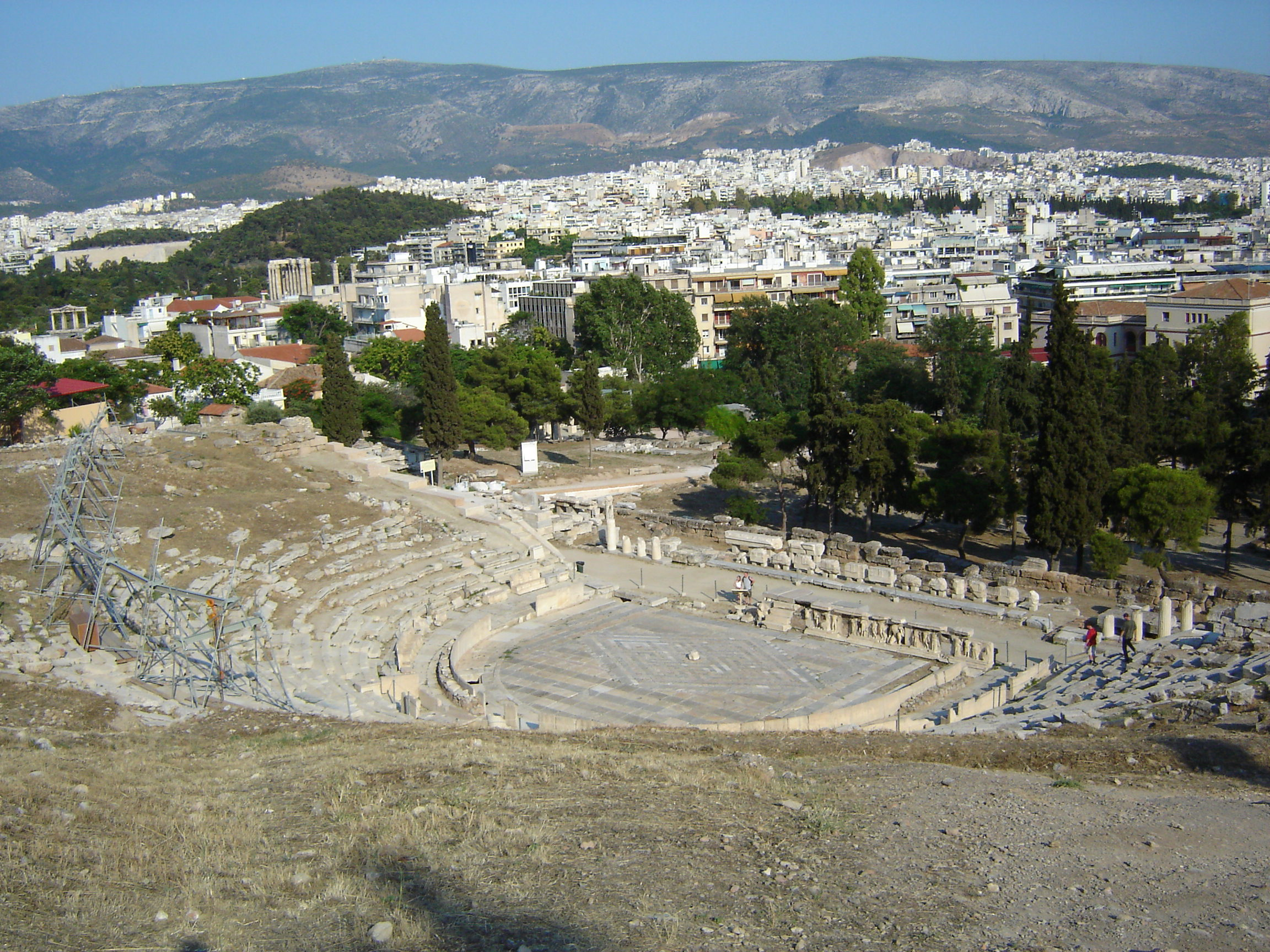 Theatre of Dionysos, Athens, Greece; seen from the slope of the Acropolis Source: self-made, June 2005 Author: BishkekRocks